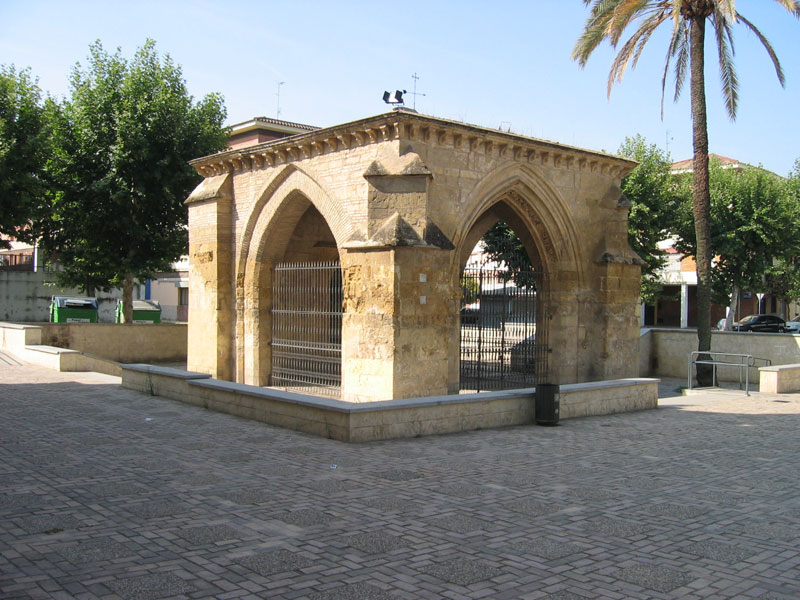 Nuestra Señora de la Fuensanta Sanctuary, in Córdoba (Spain).